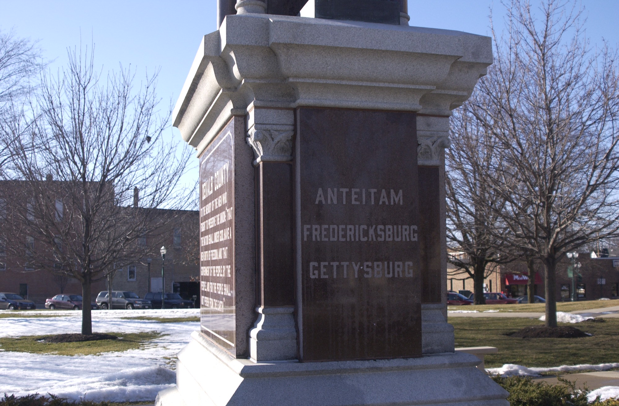 Civil War Memorial, misspelling of Antietam as "Anteitam". Sycamore, Illinois, National Register of Historic Places, Sycamore Historic District.